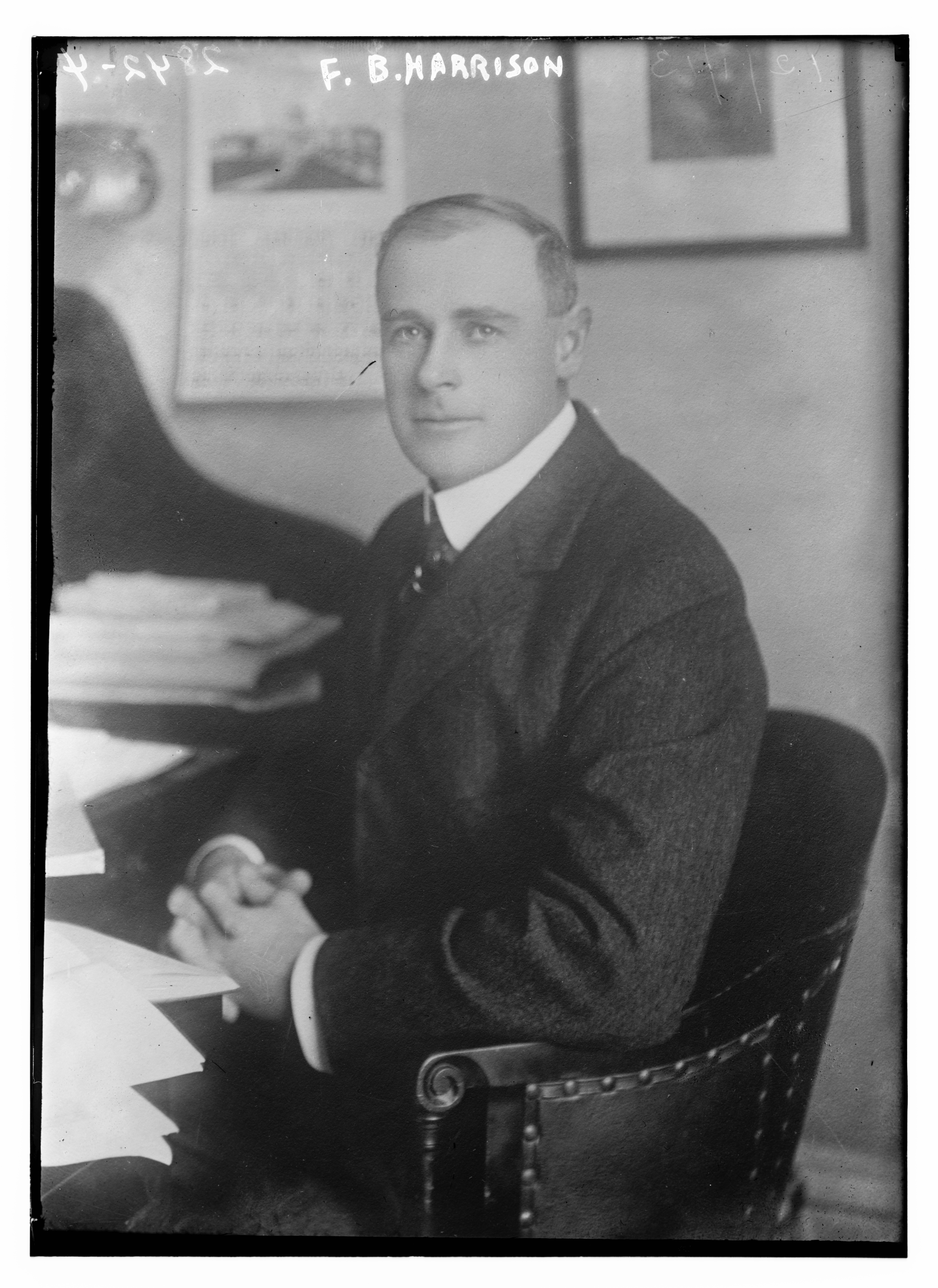 Bain News Service,, publisher. Francis Burton Harrison [between ca. 1910 and ca. 1915] 1 negative : glass ; 5 x 7 in. or smaller. Notes: Title from unverified data provided by the Bain News Service on the negatives or caption cards. Forms part of: George Grantham Bain Collection (Library of Congress). Format: Glass negatives. Repository: Library of Congress, Prints and Photographs Division, Washington, D.C. 20540 USA, General information about the Bain Collection is available at Persistent URL: Call Number: LC-B2- 2842-4